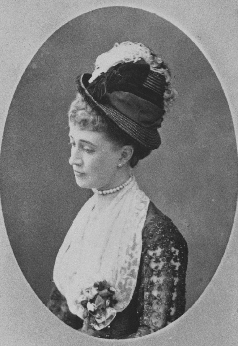 Photograph of Mrs Hélène Standish, wife of Henry Noailles Widdrington Standish. Royal Collection Trust, Her Majesty Queen Elizabeth II.